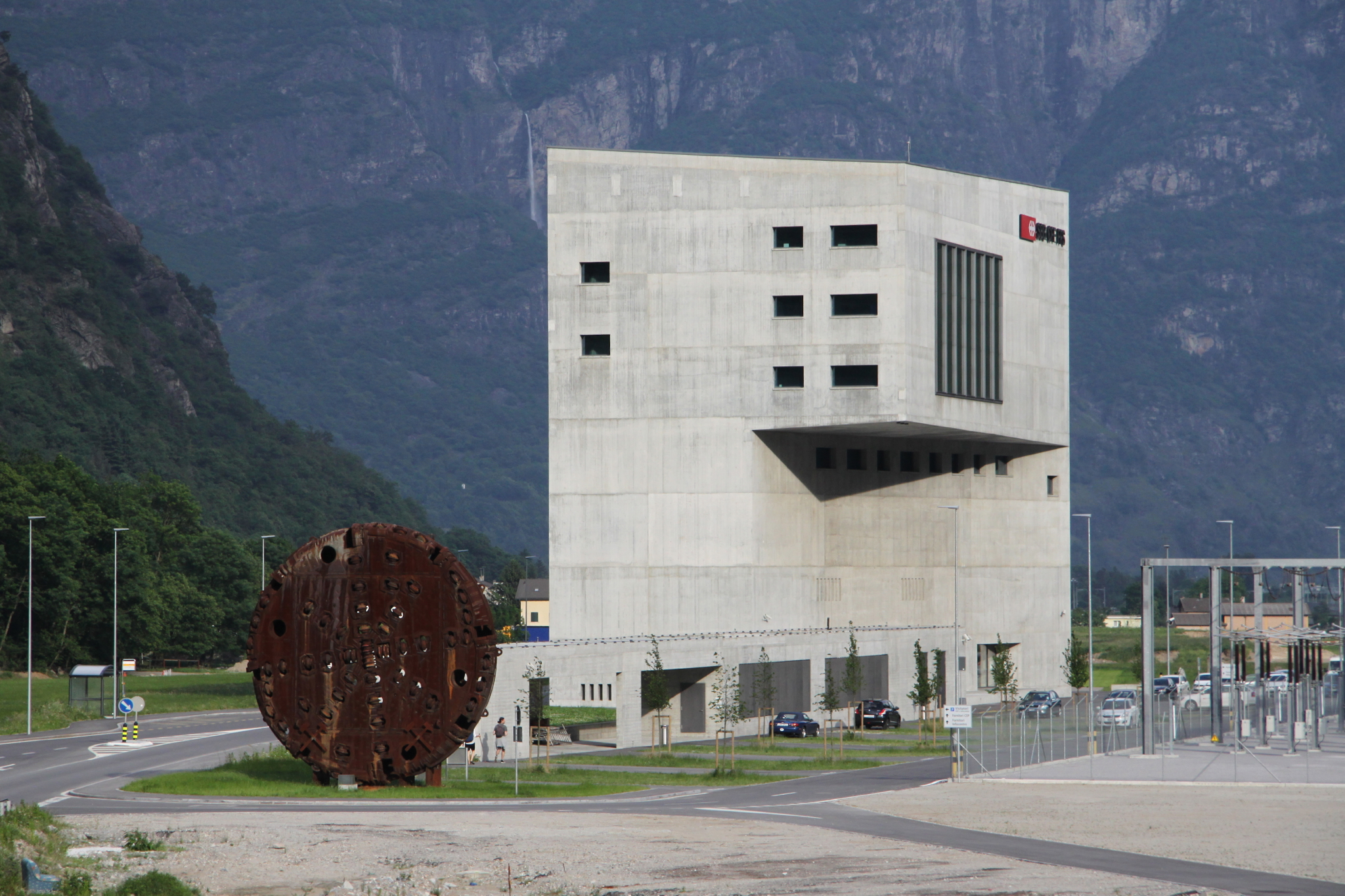 "Periscopio" signal box in Pollegio.